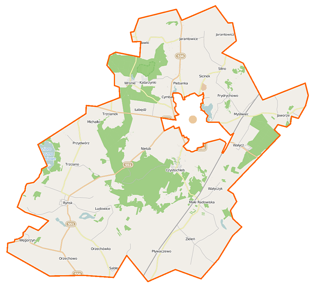 Map of Gmina Ryńsk, Poland This map of Ryńsk (gmina) was created from OpenStreetMap project data, collected by the community. This map may be incomplete, and may contain errors. Don't rely solely on it for navigation.